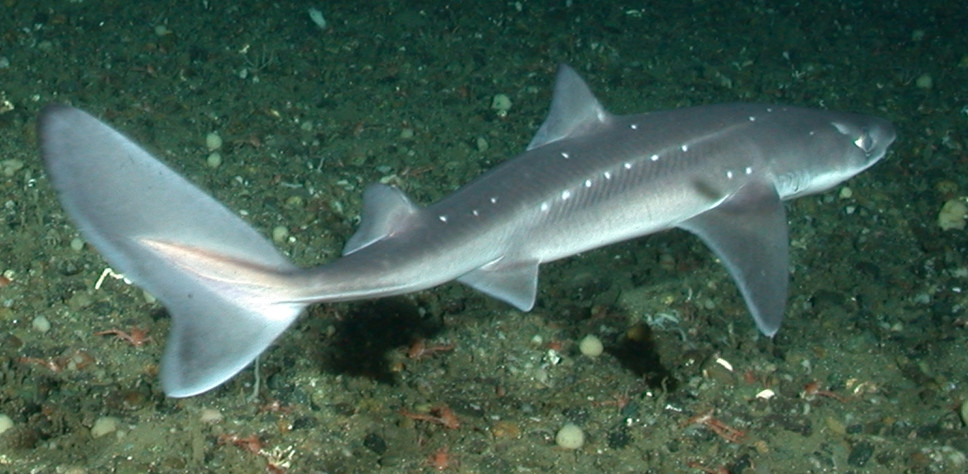 A spiny dogfish photographed in the Olympic Coast National Marine Sanctuary off the coast of Washington, USA.